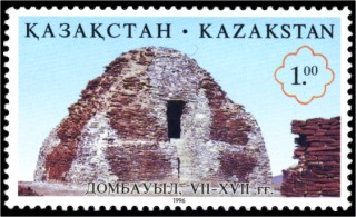 Stamp of Kazakhstan